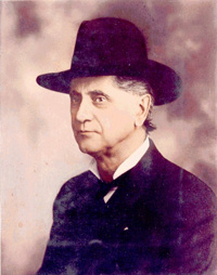 William Gladstone Steel as an older man.